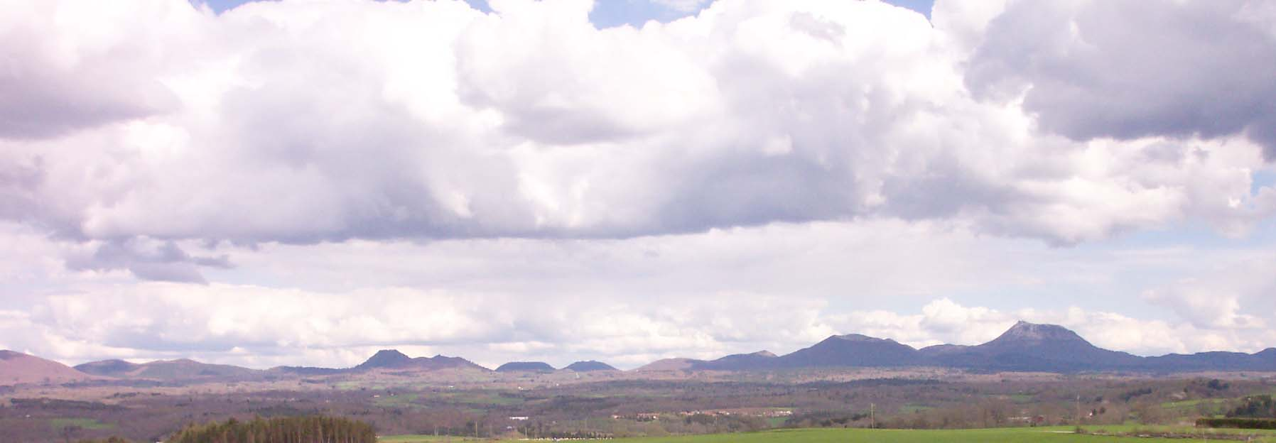 The Puy chain.